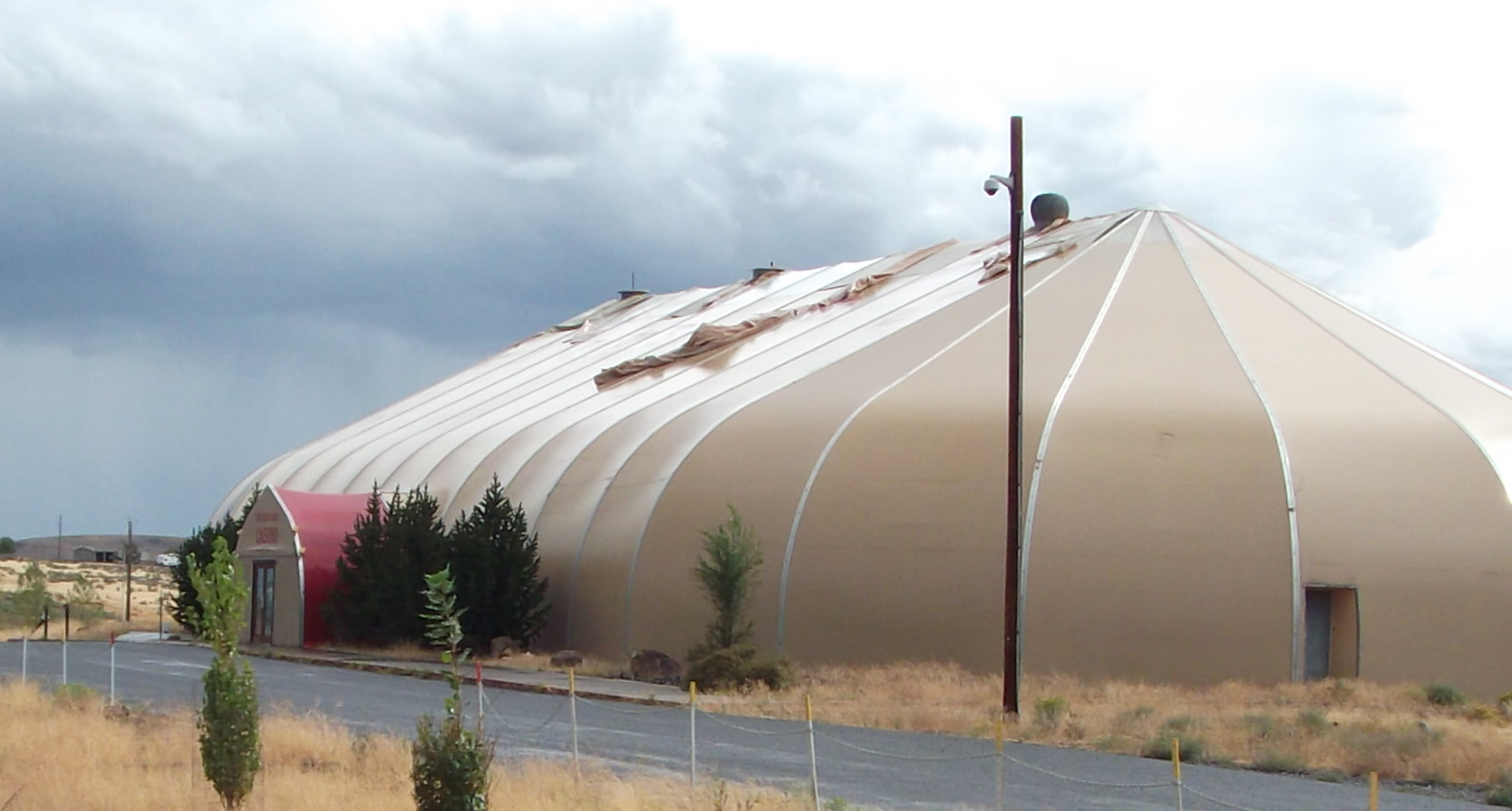 Old Burns Casino (dead)